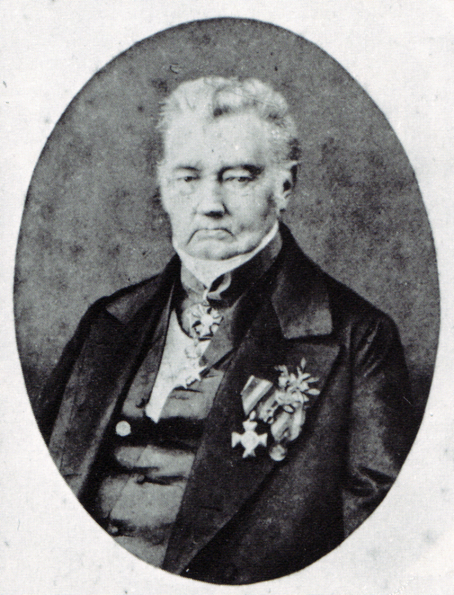 Karl von Schlözer (1780-1859), Imperial Russian consul general to the City of Lübeck